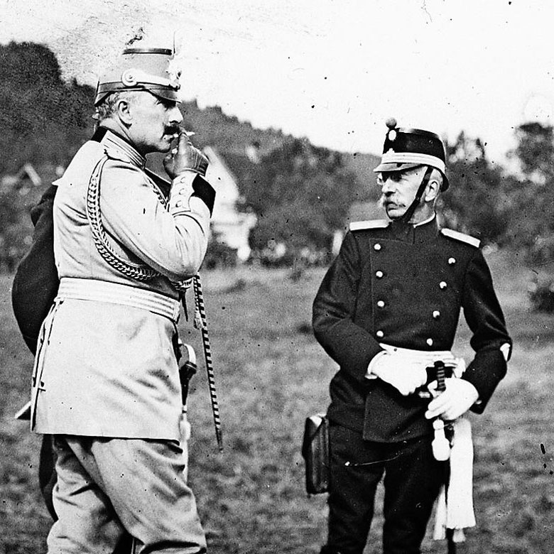 German emperor Wilhelm II and Swiss federal councillor Arthur Hoffmann at the 1912 imperial manoeuvers